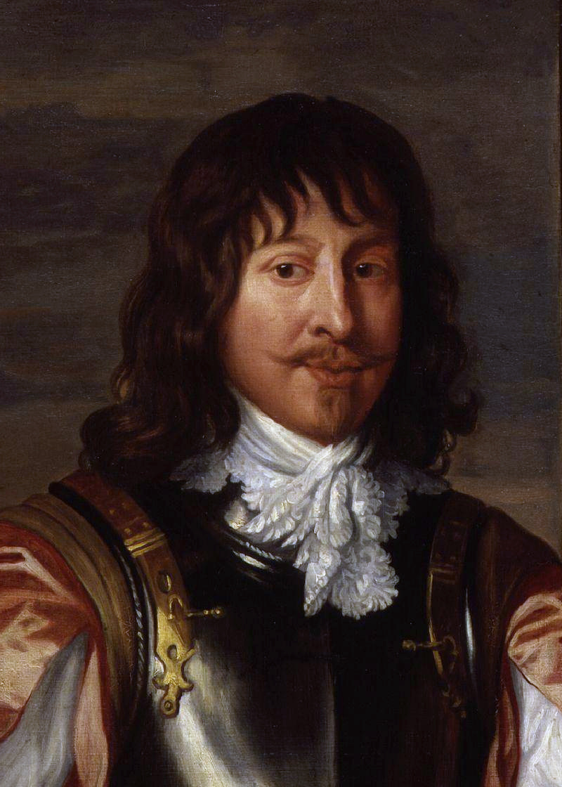 Mountjoy Blount, 1st Earl of Newport; George Goring, Baron Goring